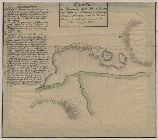 Map of the fortification at Stene in Verdal, drawn by Gab. Cronstedt in 1718.